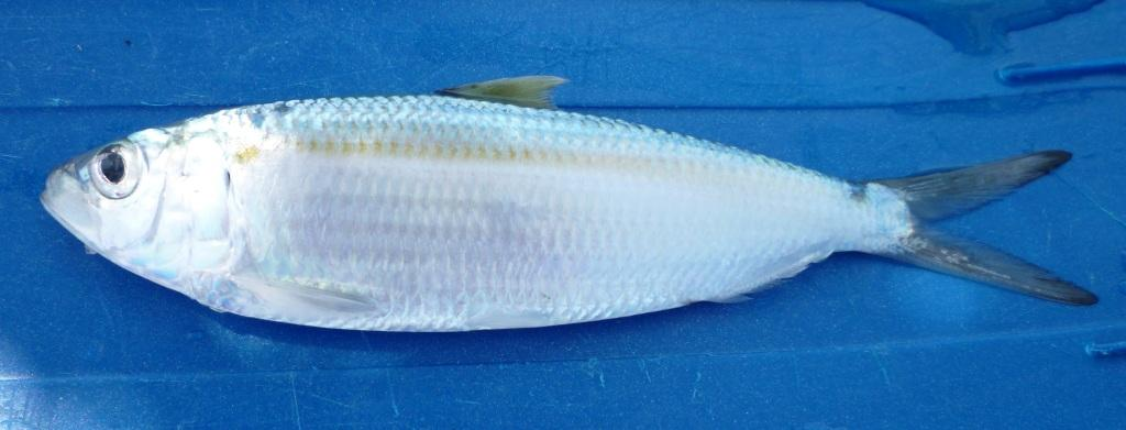 Sardinella maderensis collected in Sicily (southern Italy) Photo by Francesco La Piana